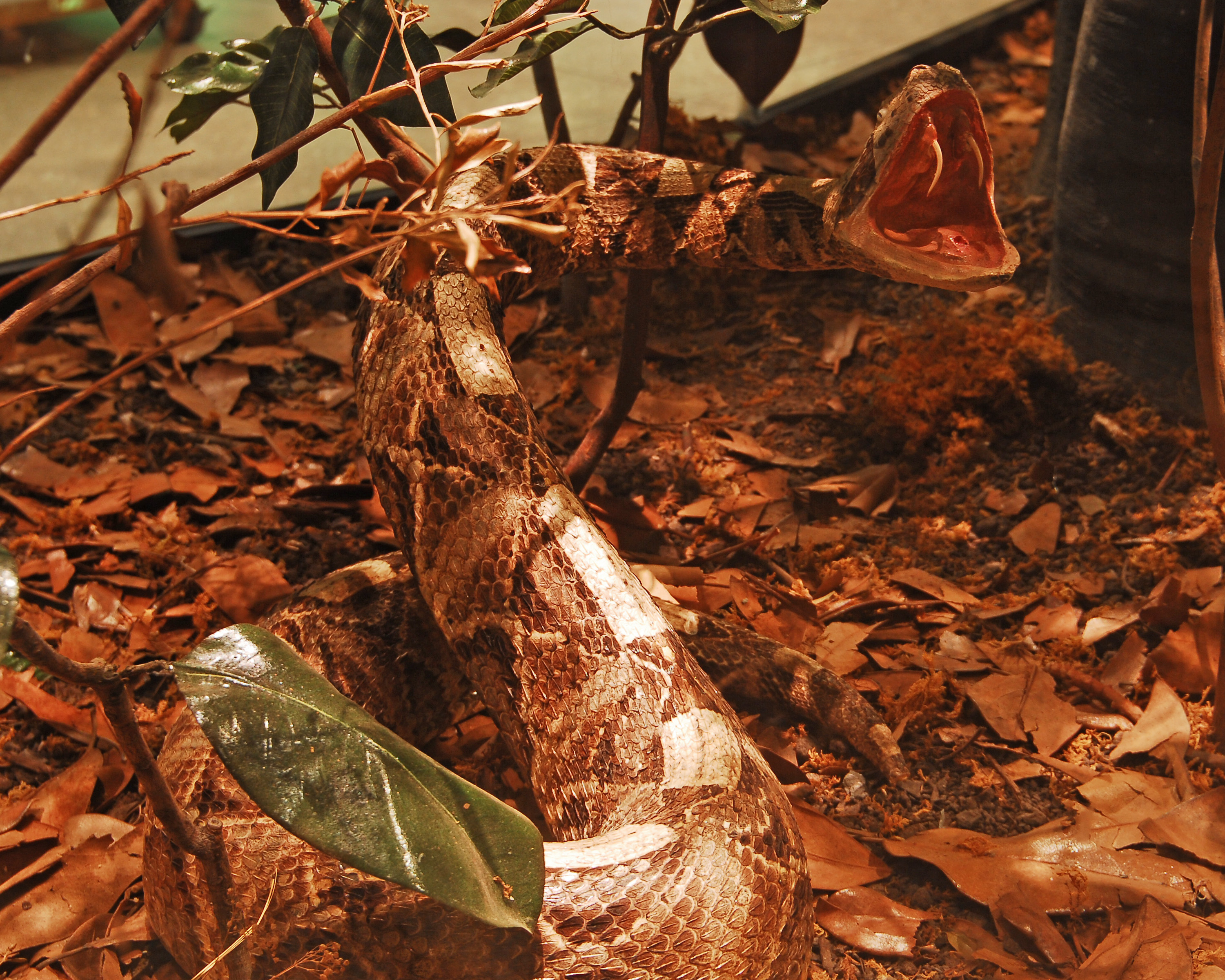 Gaboon Viper Bitis gabonica Wikipedia Loves Art at the Houston Museum of Natural Science This photo of item # [1] at the Houston Museum of Natural Science was contributed under the team name "Houston_Museum_Of_Natural_Science" as part of the Wikipedia Loves Art project in February 2009. Houston Museum of Natural Science The original photograph on Flickr was taken by gwenturnerjuarez—please add a comment to the original Flickr page whenever a use has been made on Wikipedia or another project. Project galleries on Flickr: this institution, this team